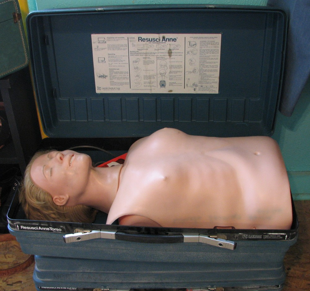 Resusci Anne is a training mannequin used for teaching cardiopulmonary resuscitation (CPR). It is for both emergency workers and members of the general public. The face of Resusci Anne was based on L'Inconnue de la Seine. It was the death mask of an unidentified young woman who may have drowned in the Seine River around the late 1880s.